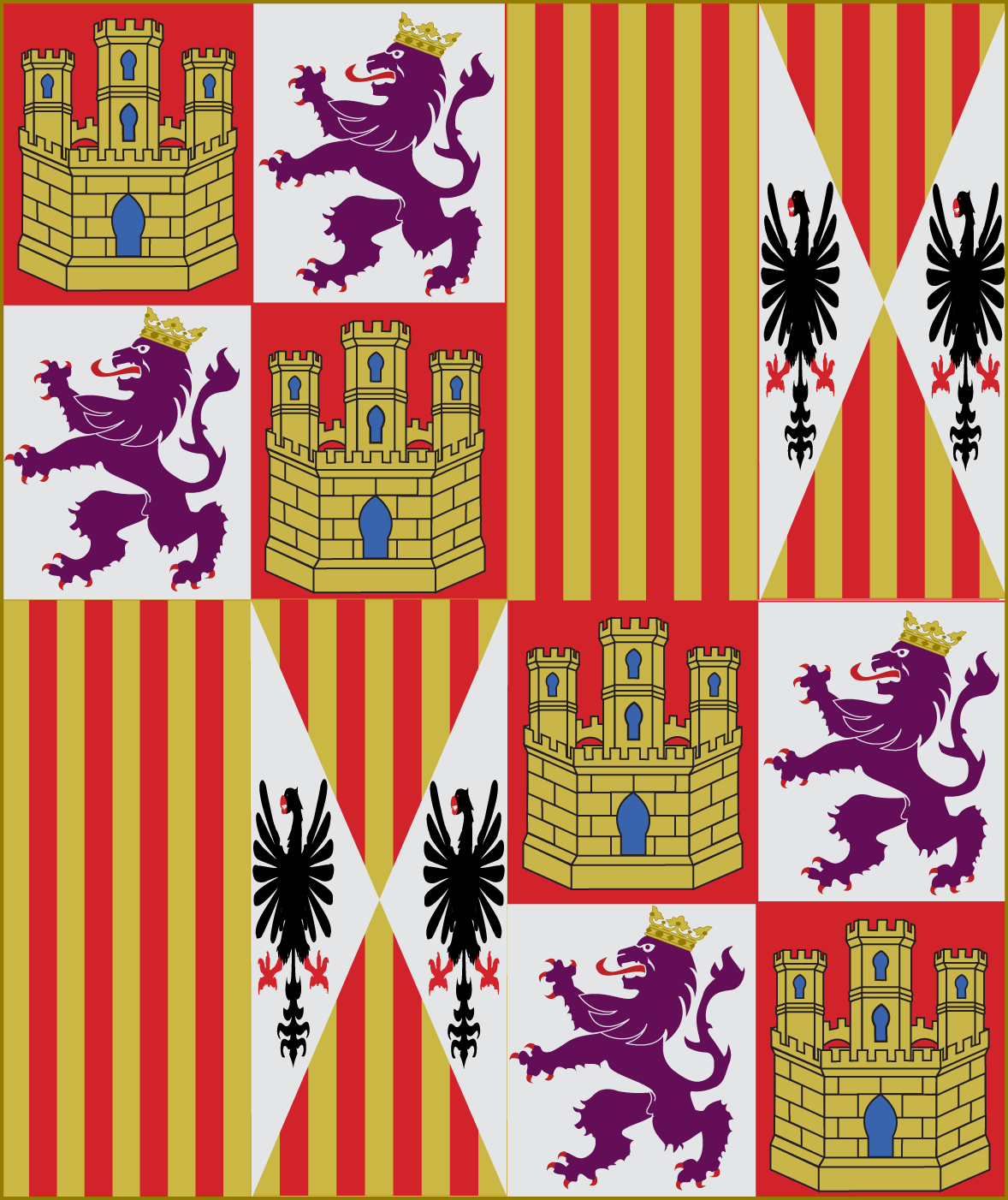 Pennant (Banner of Arms) of the Catholic Monarchs (Spain)